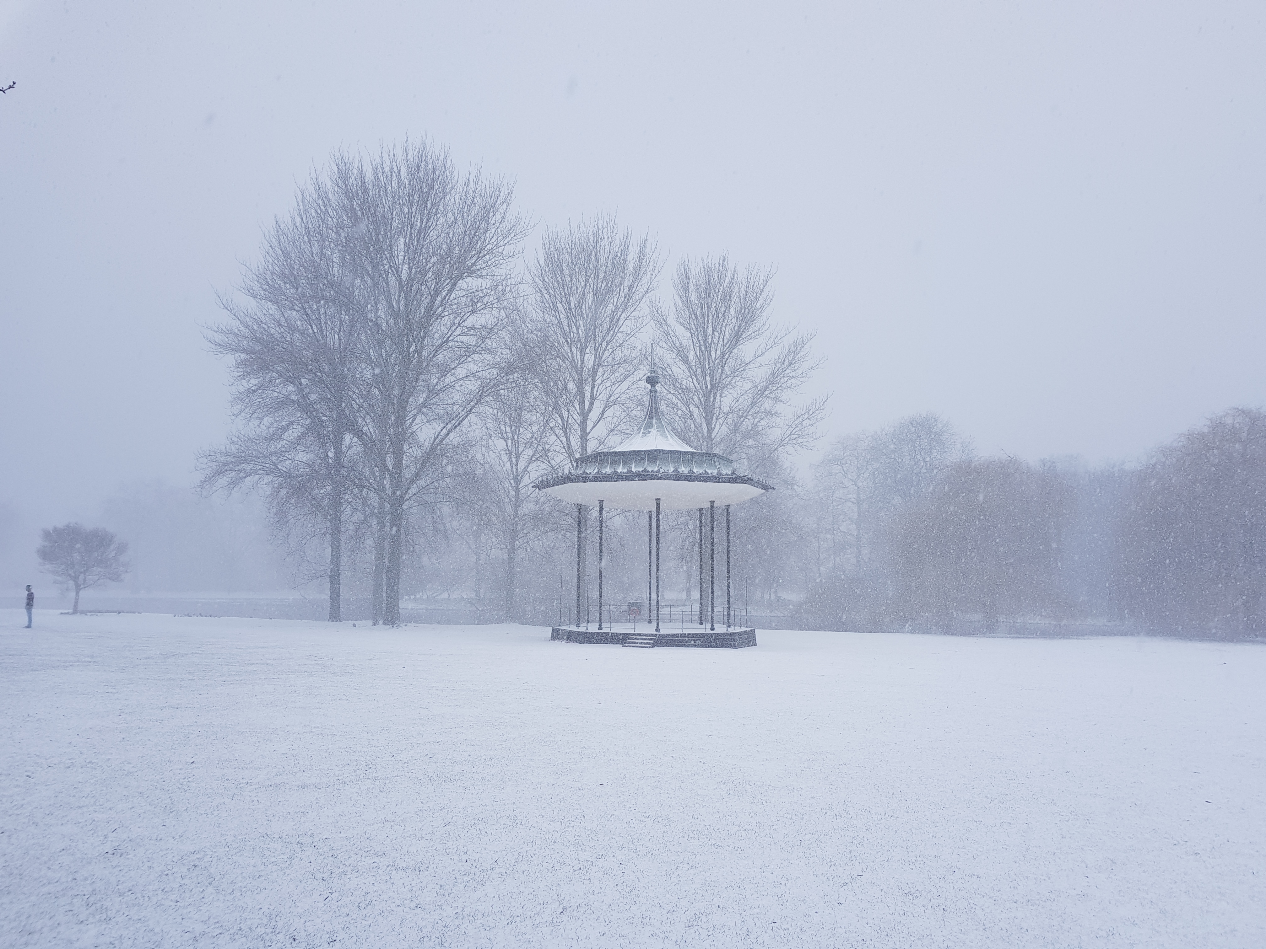 Regent's Park during the "Beast from the East" blizzard, 27 February 2018